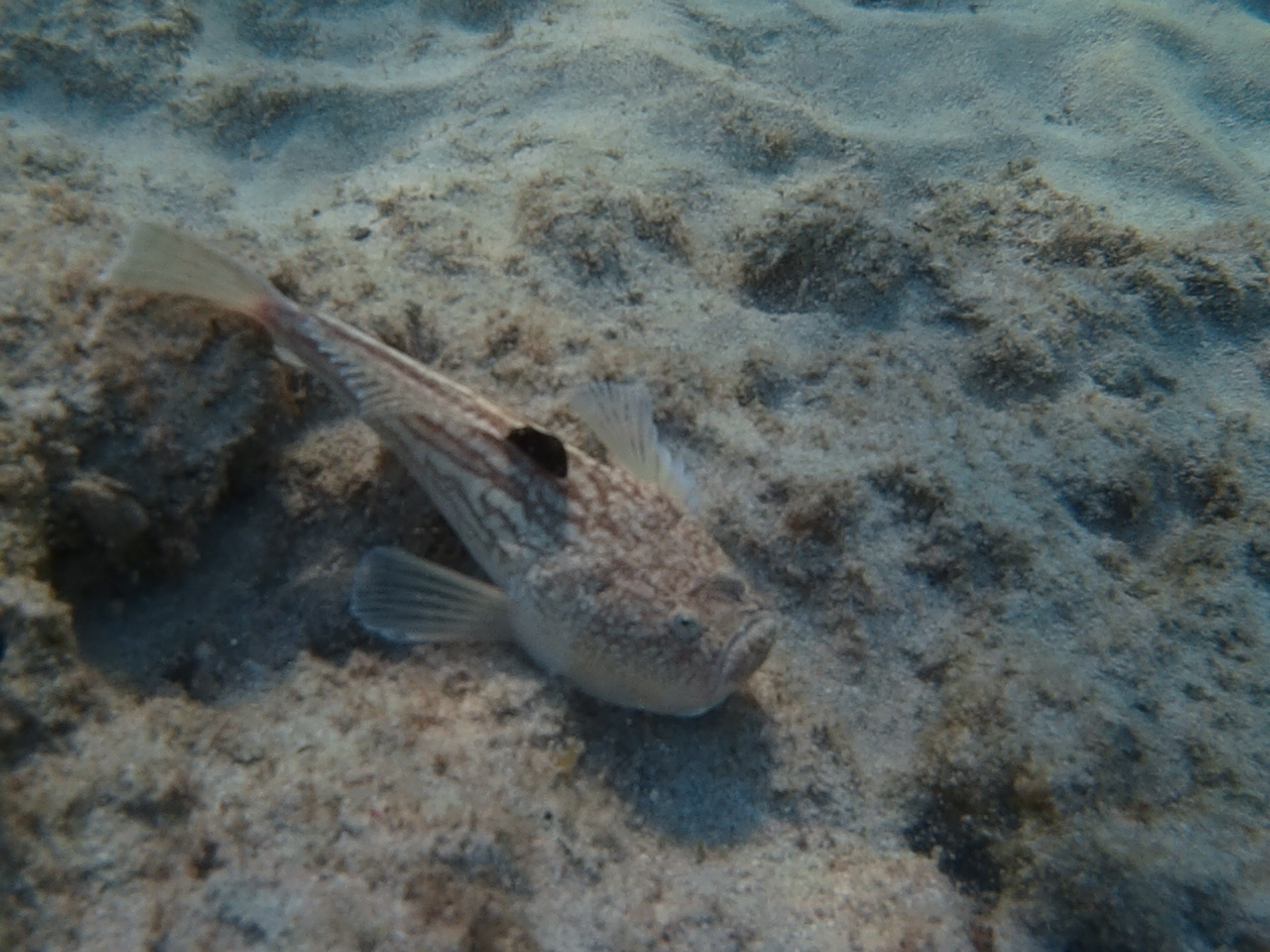 Atlantic stargazer (Uranoscopus scaber) near Elafonisos (Greece, Peloponnese, Laconia)